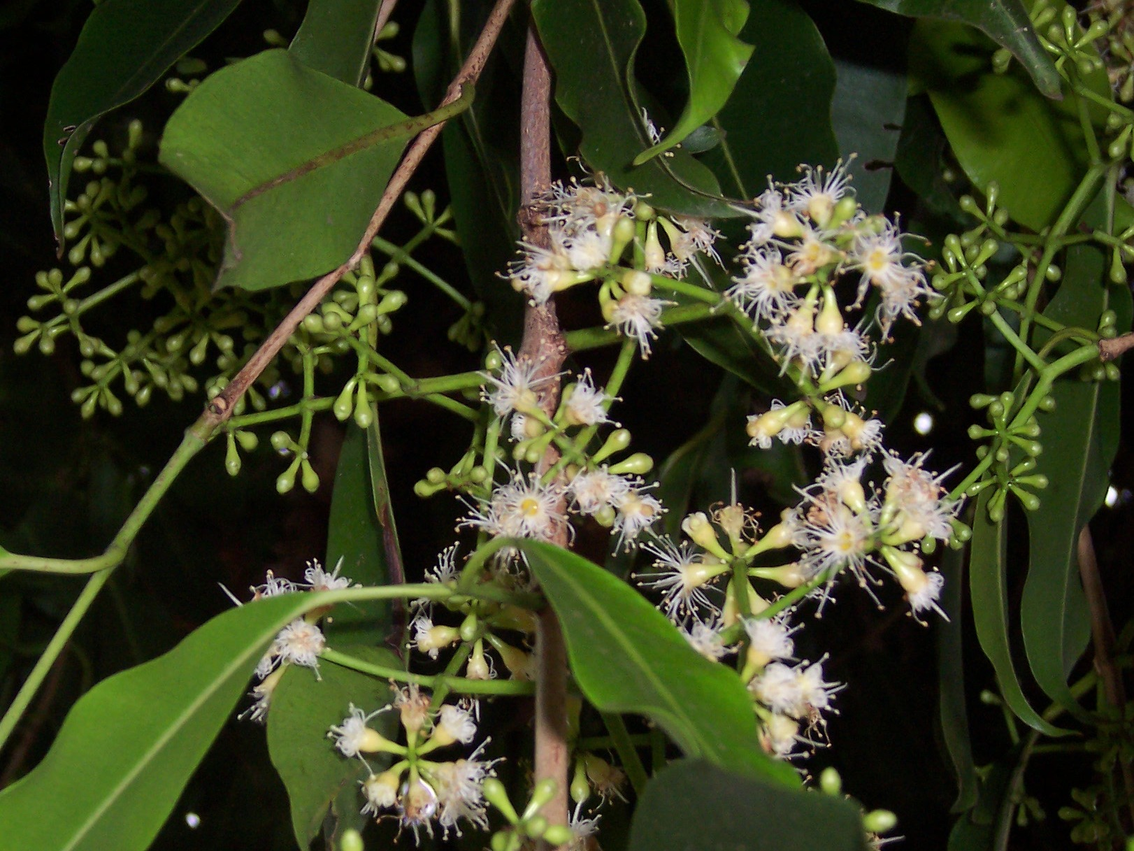 Jambul (Syzygium cumini) flowers (shot on Réunion island)